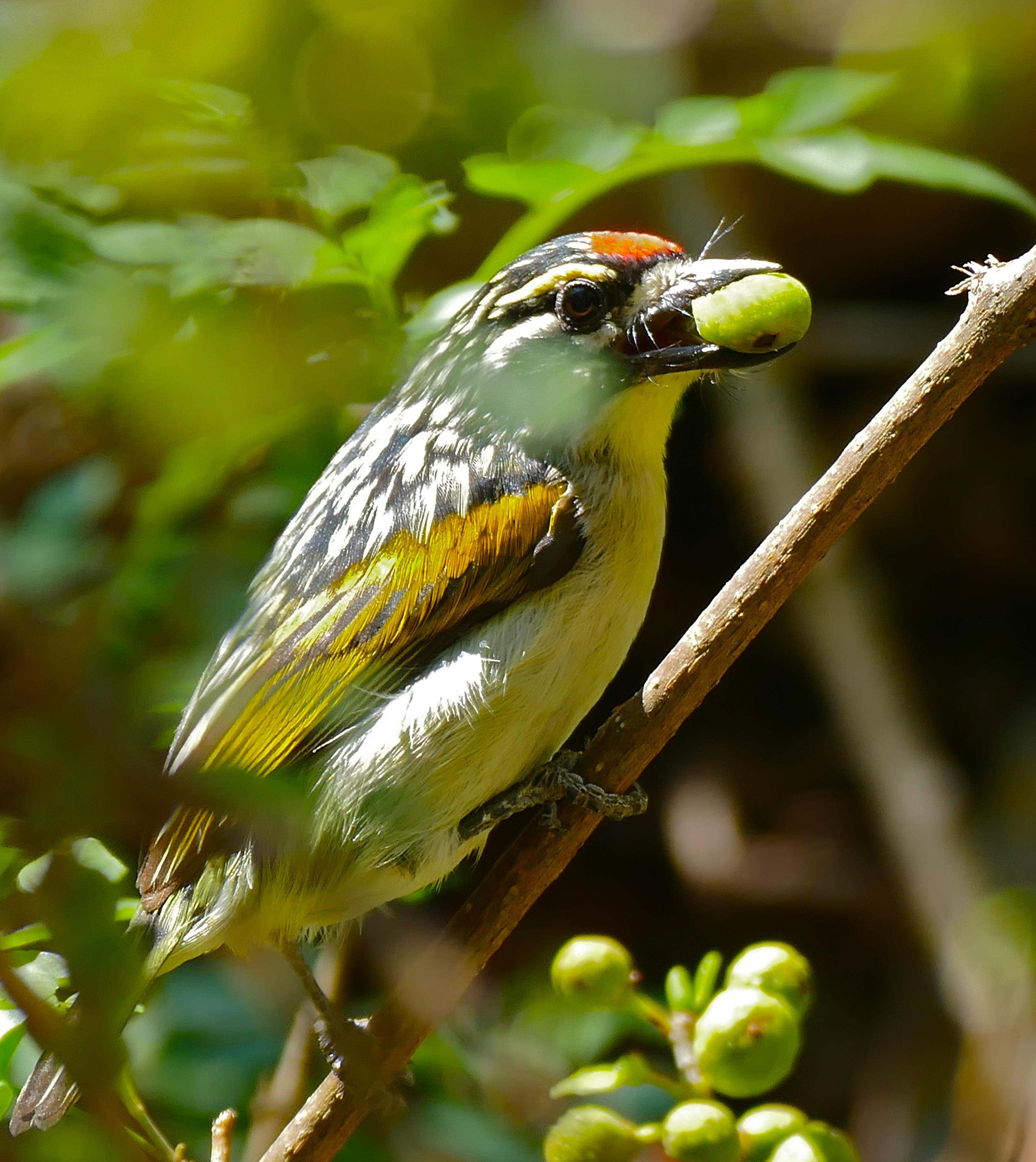 Ntshondwe Camp, Ithala Game Reserve, Kwazulu-Natal, SOUTH AFRICA